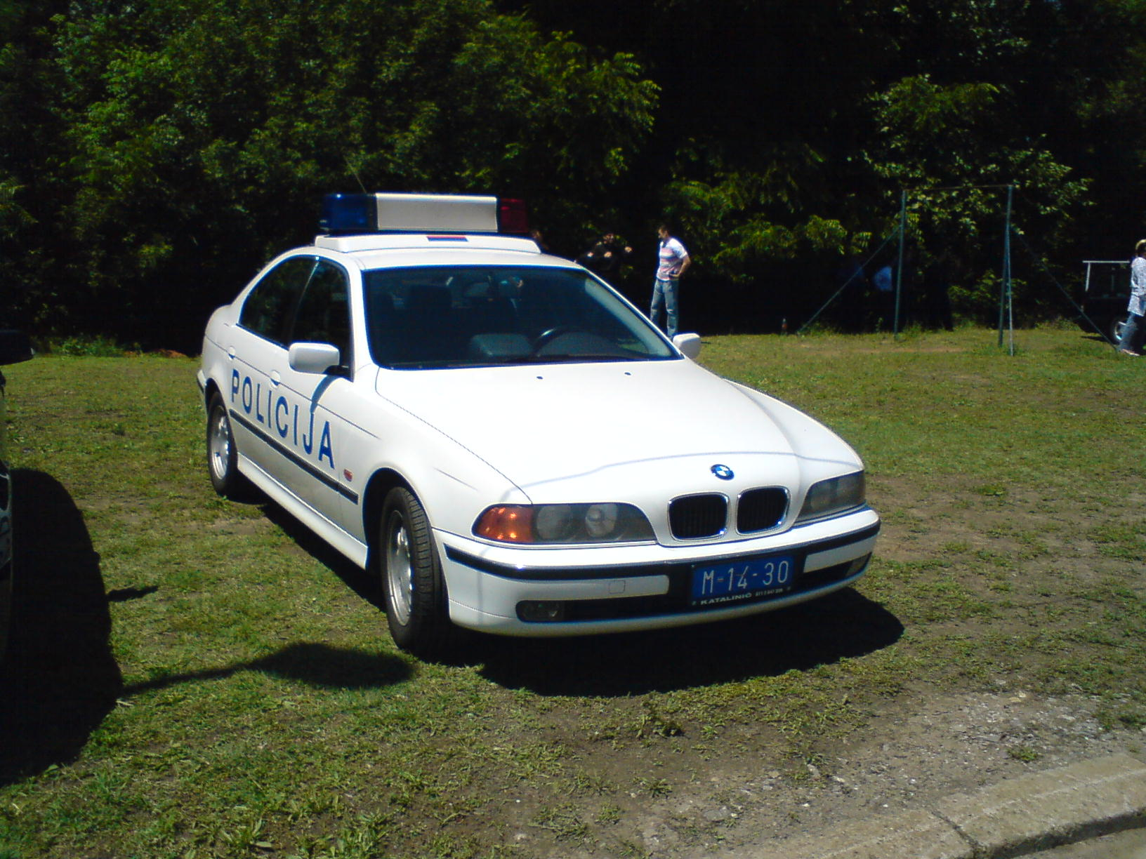 BMW 5 of Serbian Police